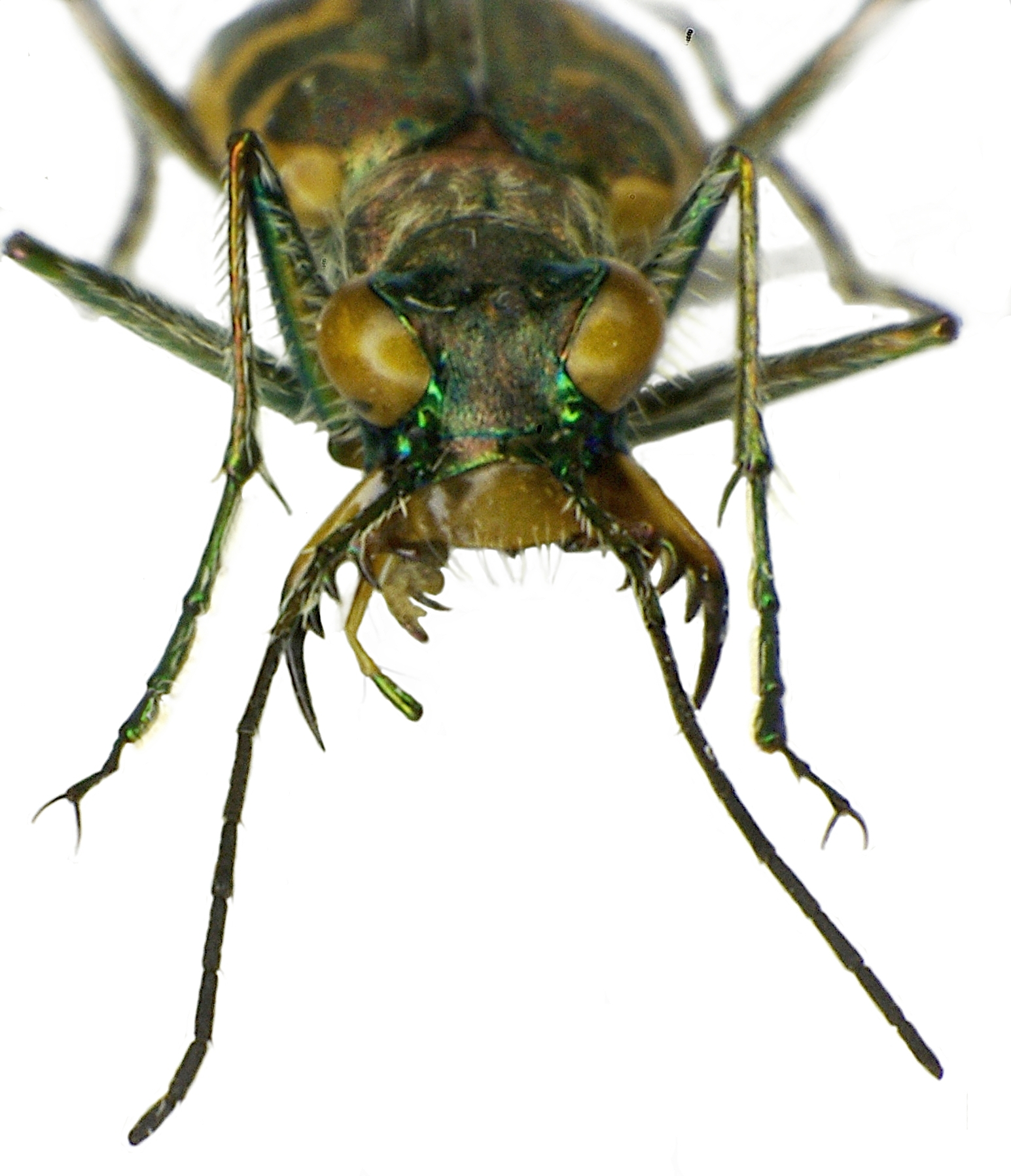 Front of Cicindela arenaria from Hungary